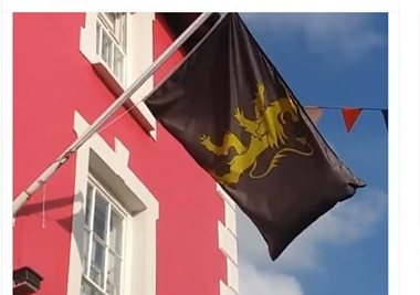 Flag of Ceredigion flying outside Castle pub, Aberaeron, 2019 Аҧсшәа: Baner Ceredigion yn cyhwfan tu allan Tafarn y Castell, Aberaeron, Awst 2019